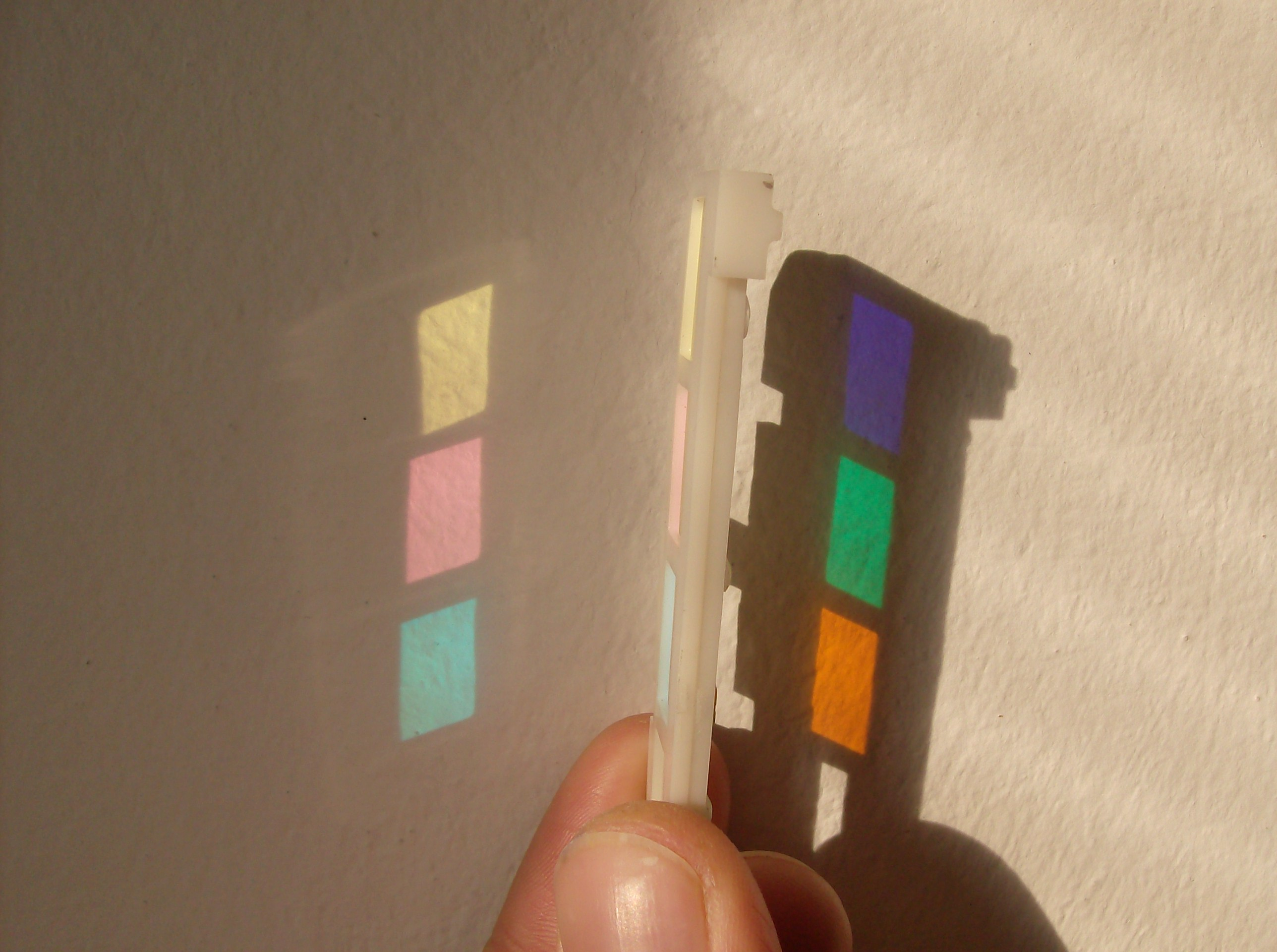 This image shows the reflected and transmitted part of white light passing through three different dielectric filters. The reflected and transmitted parts of spectrum are complementary.